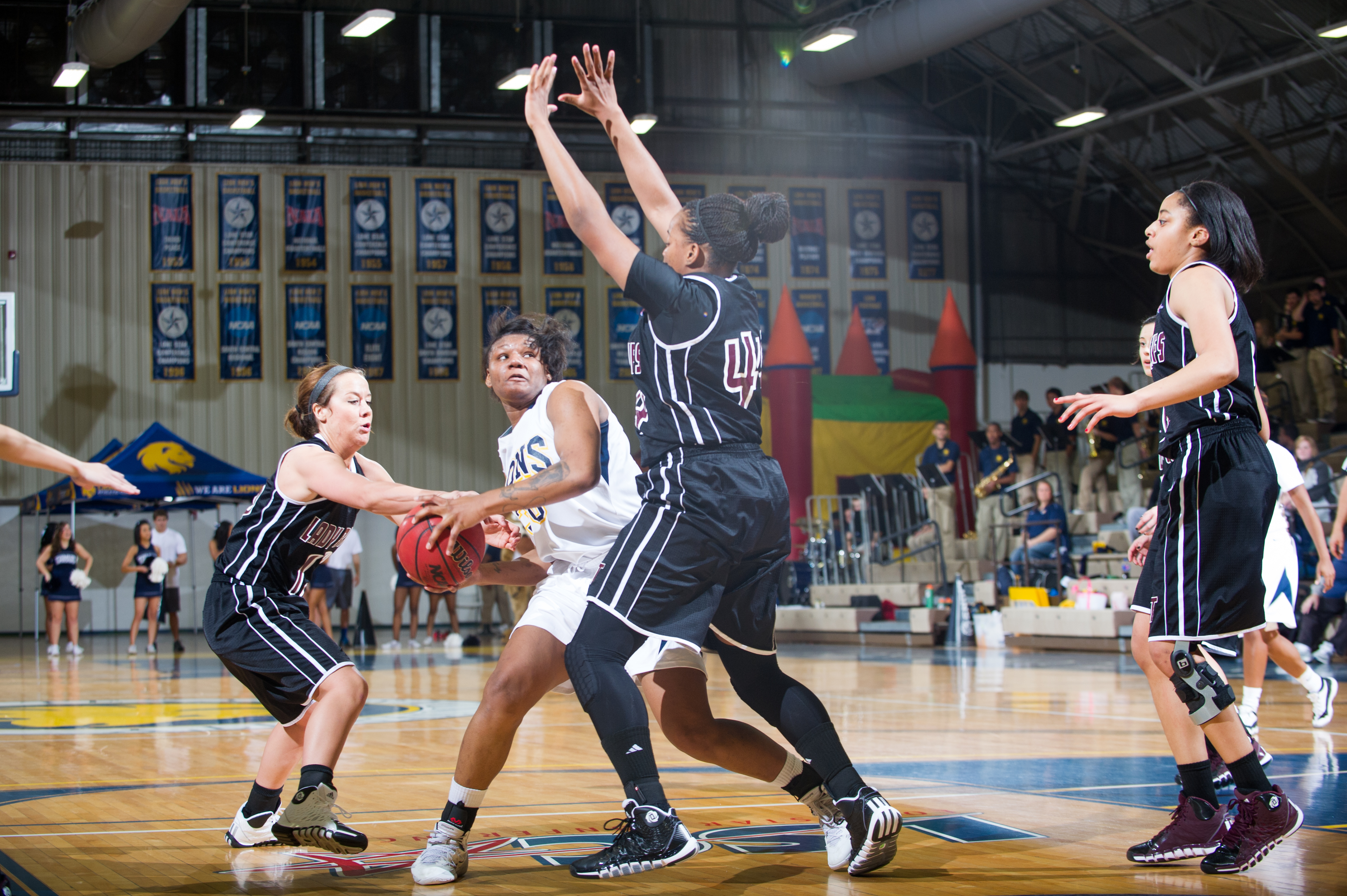 Basketball-West Texas-137 2013–14 Texas A&M–Commerce Lions women's basketball team